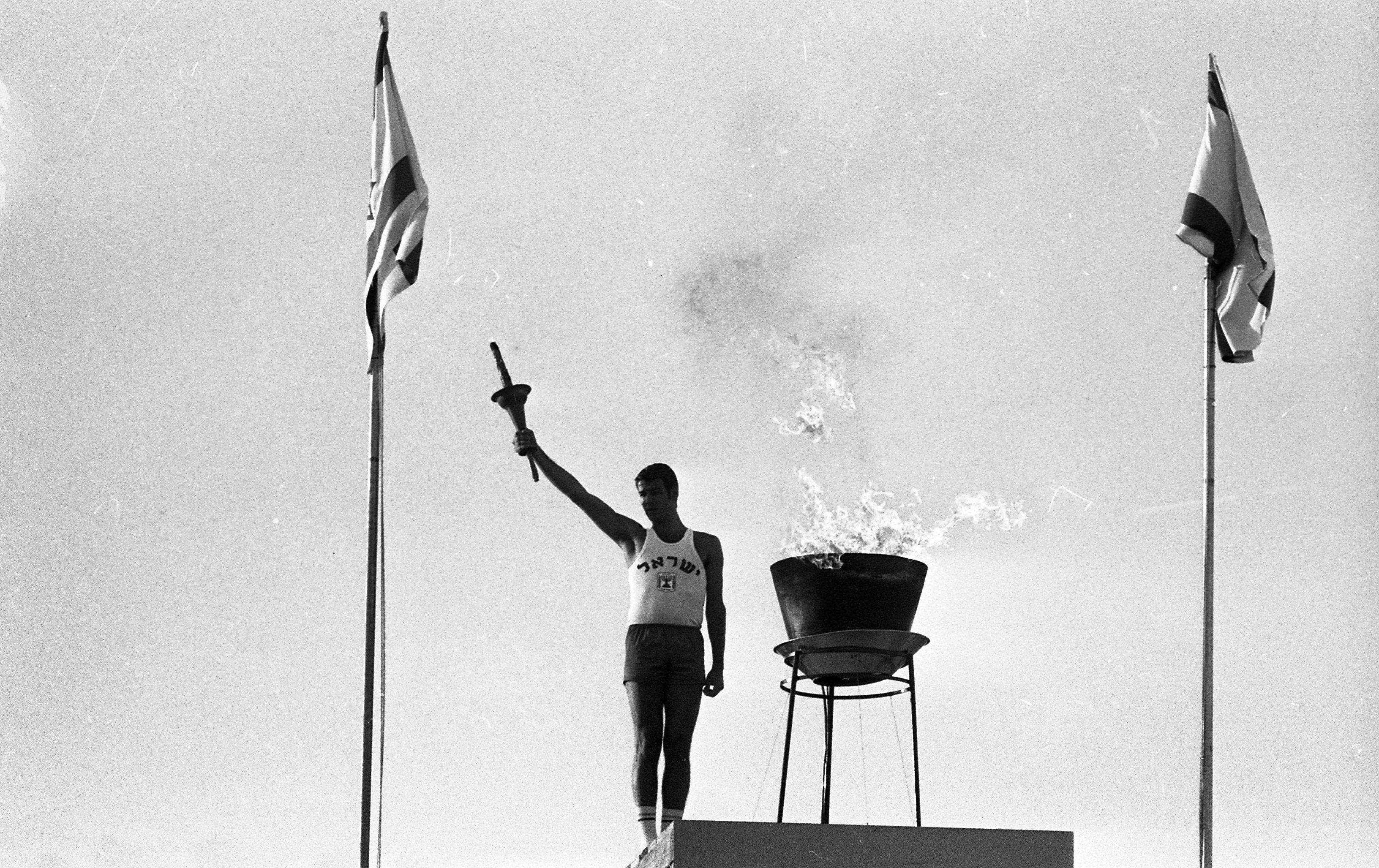 8th Maccabiah Games - 1969.